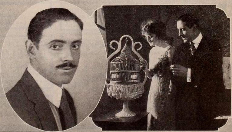 Still from the American drama film Outcast (1917) with David Powell and Ann Murdock, plus a promotional picture of David Powell, on page 47 of the September 22, 1917 Exhibitors Herald.